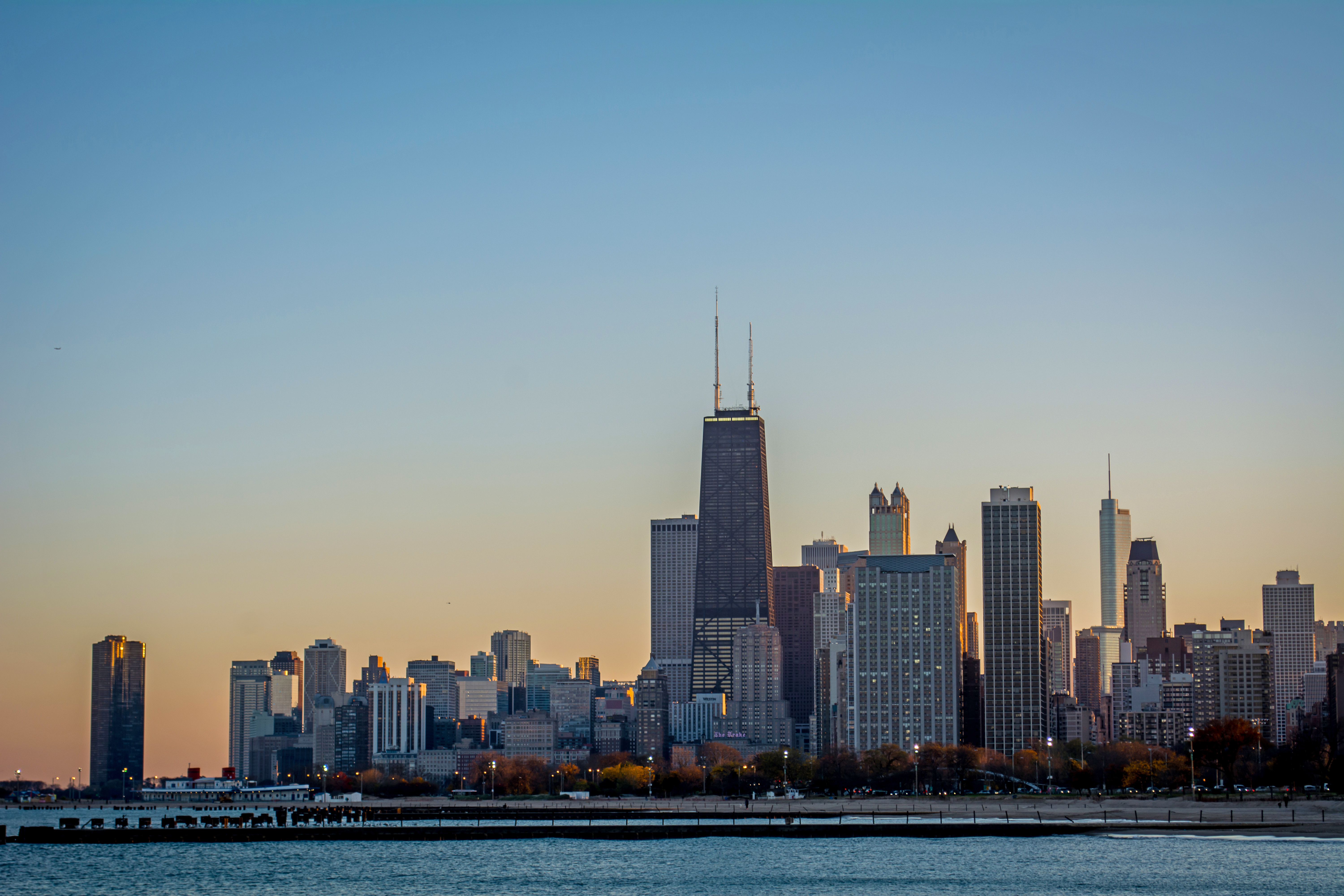 Chicago